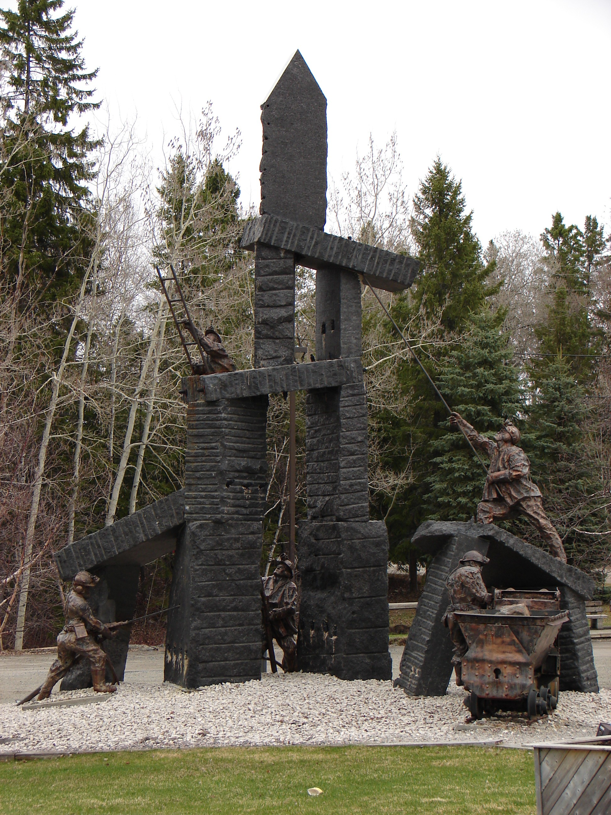 Miners Monument by artists Rob Moir and Sally Lawrence, Kirkland Lake, Ontario, Canada